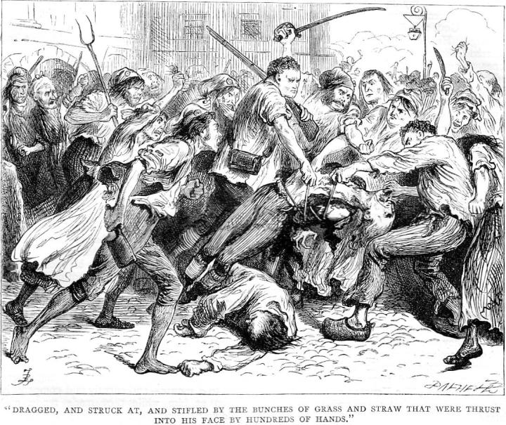 A Tale of Two Cities, the mob's attacking an official named Foulon de Doué at the Hotel de Ville, Paris, and subsequently hanging him at the Place de Grève on 22 July 1789, by Fred Barnard.